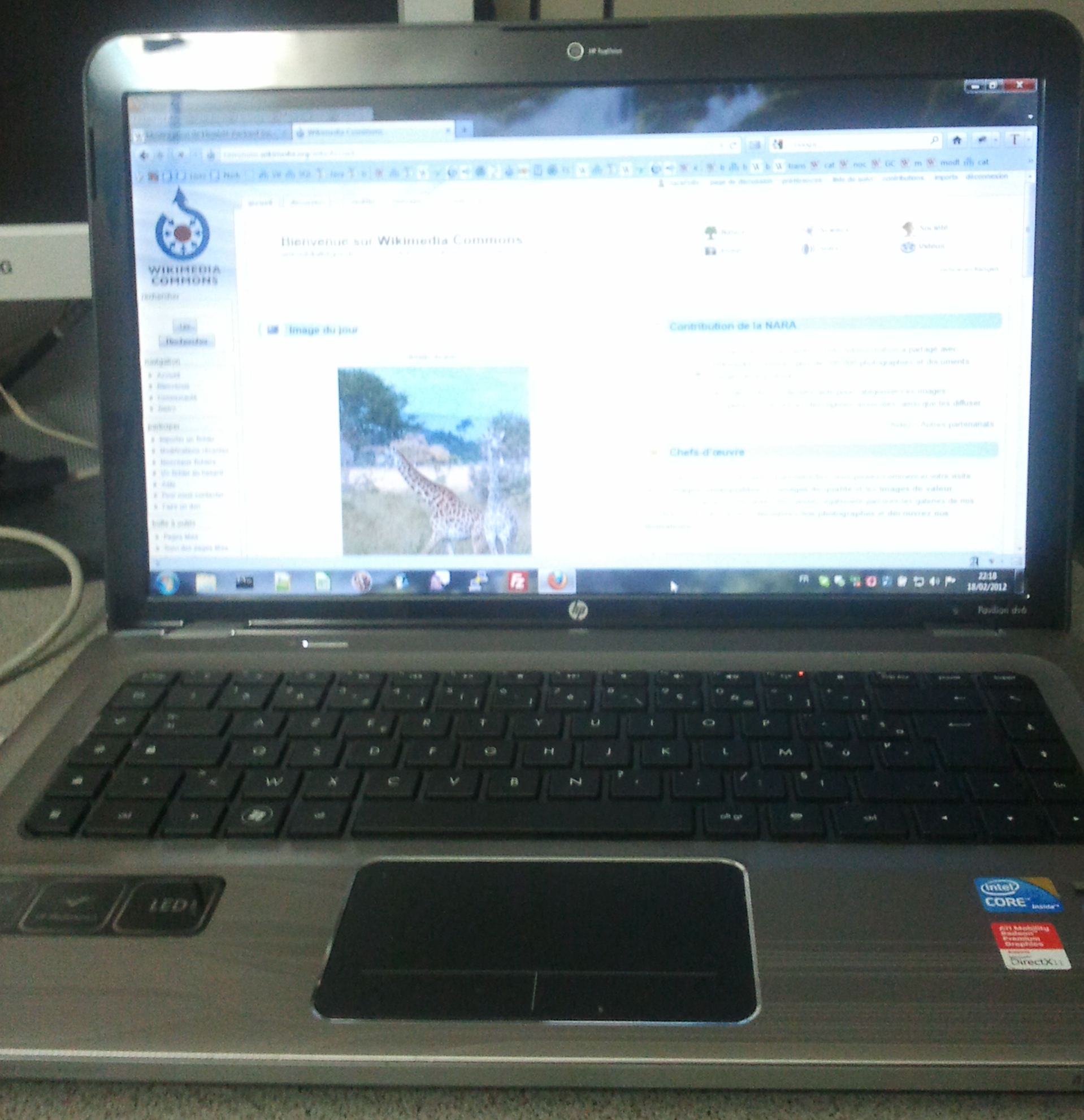 HP Pavilion DV6 portable computer